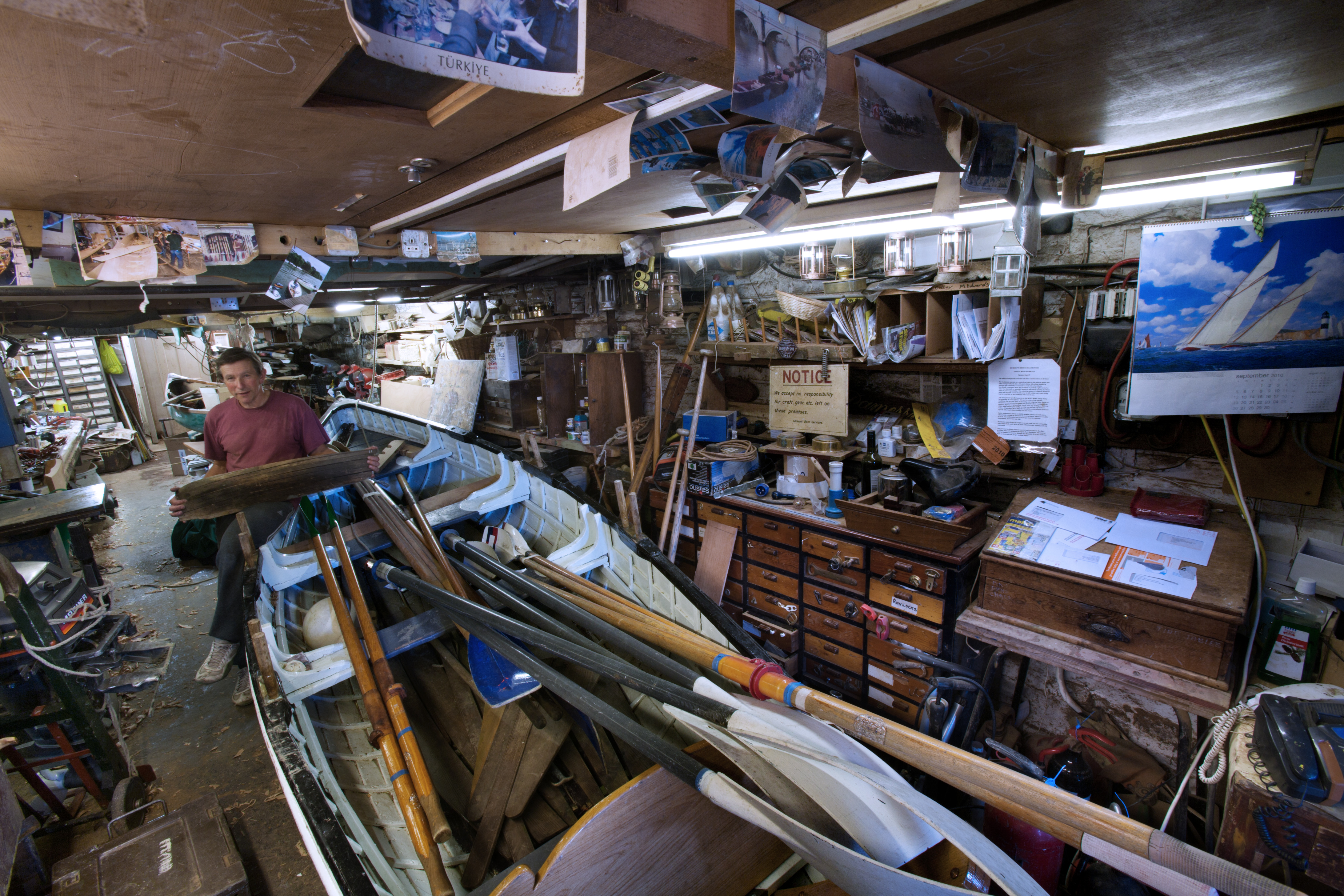 Boat Builder, Richmond, London